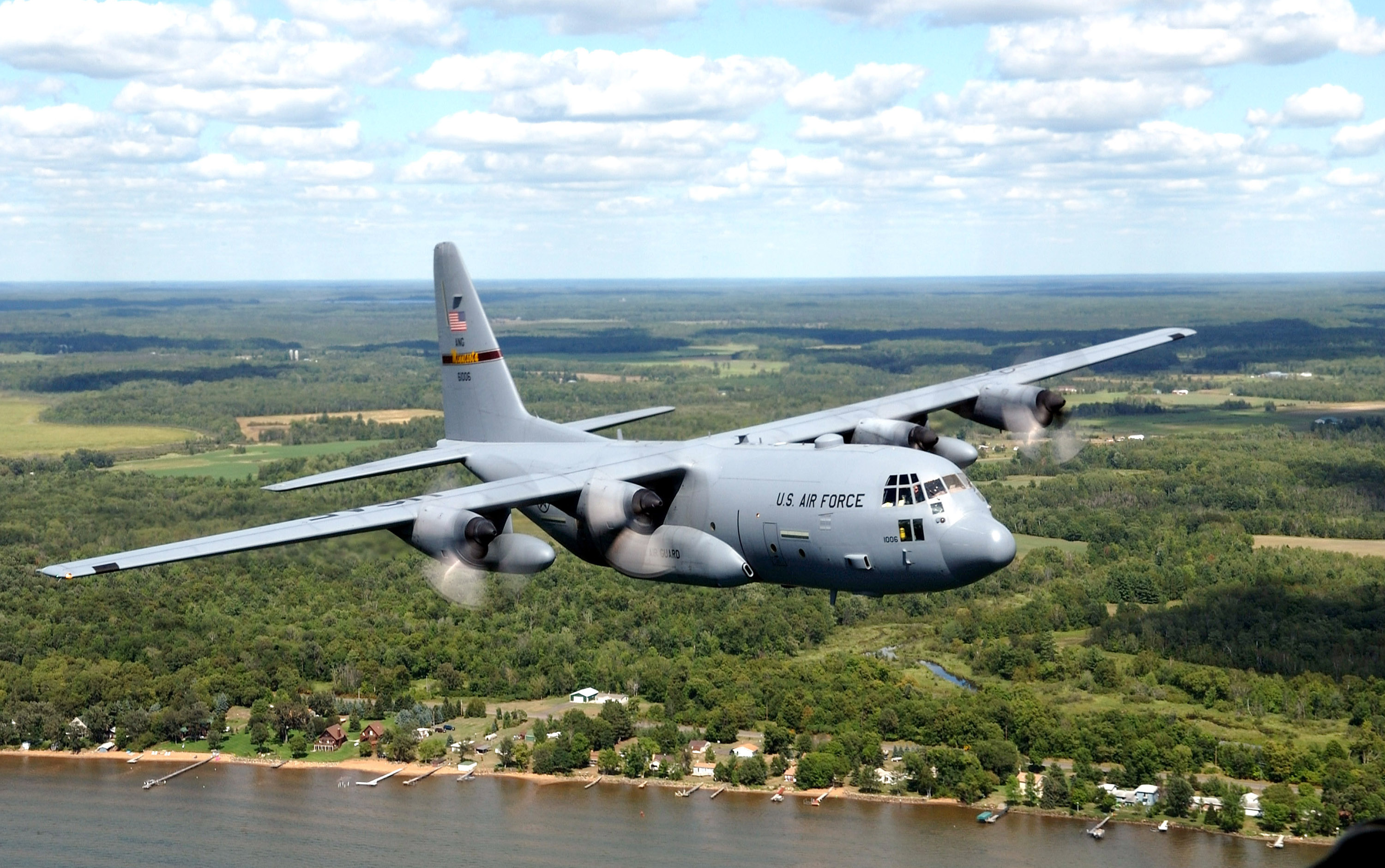 A 133rd Airlift Wing Minnesota Air National Guard C-130H flies along the shore of Mille Lacs Lake in northern Minnesota during a training mission. U.S. Air Force Photo by Tech Sgt Erik Gudmundson (Released)